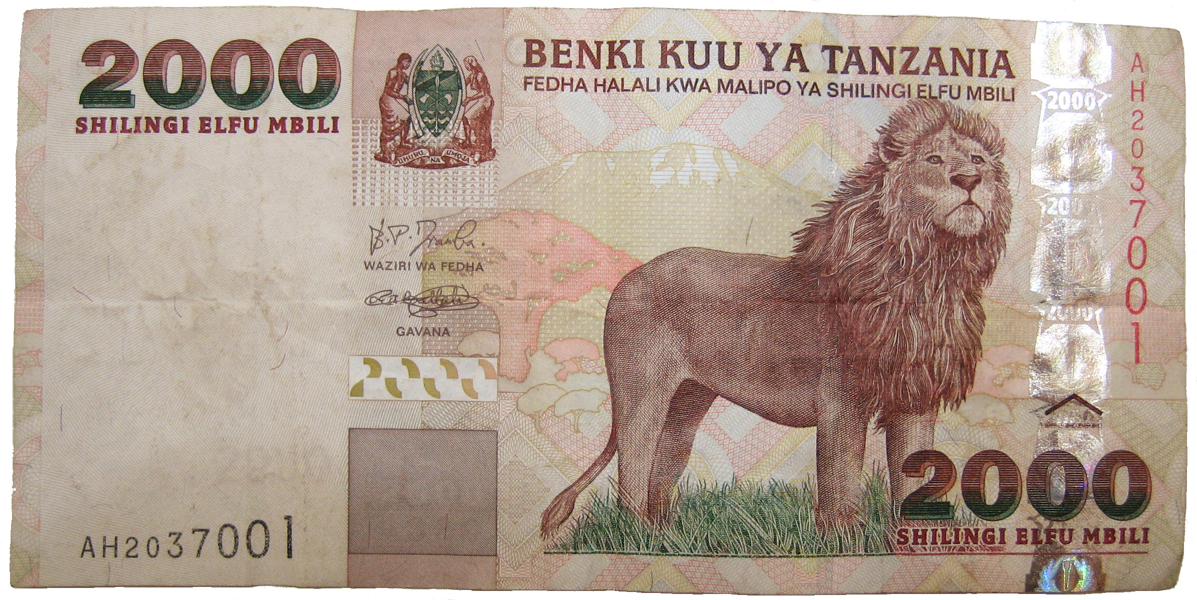 2000 Tanzanian shillings note, front, displaying a lion and Mt. Kilimanjaro in the background (issued 2003).